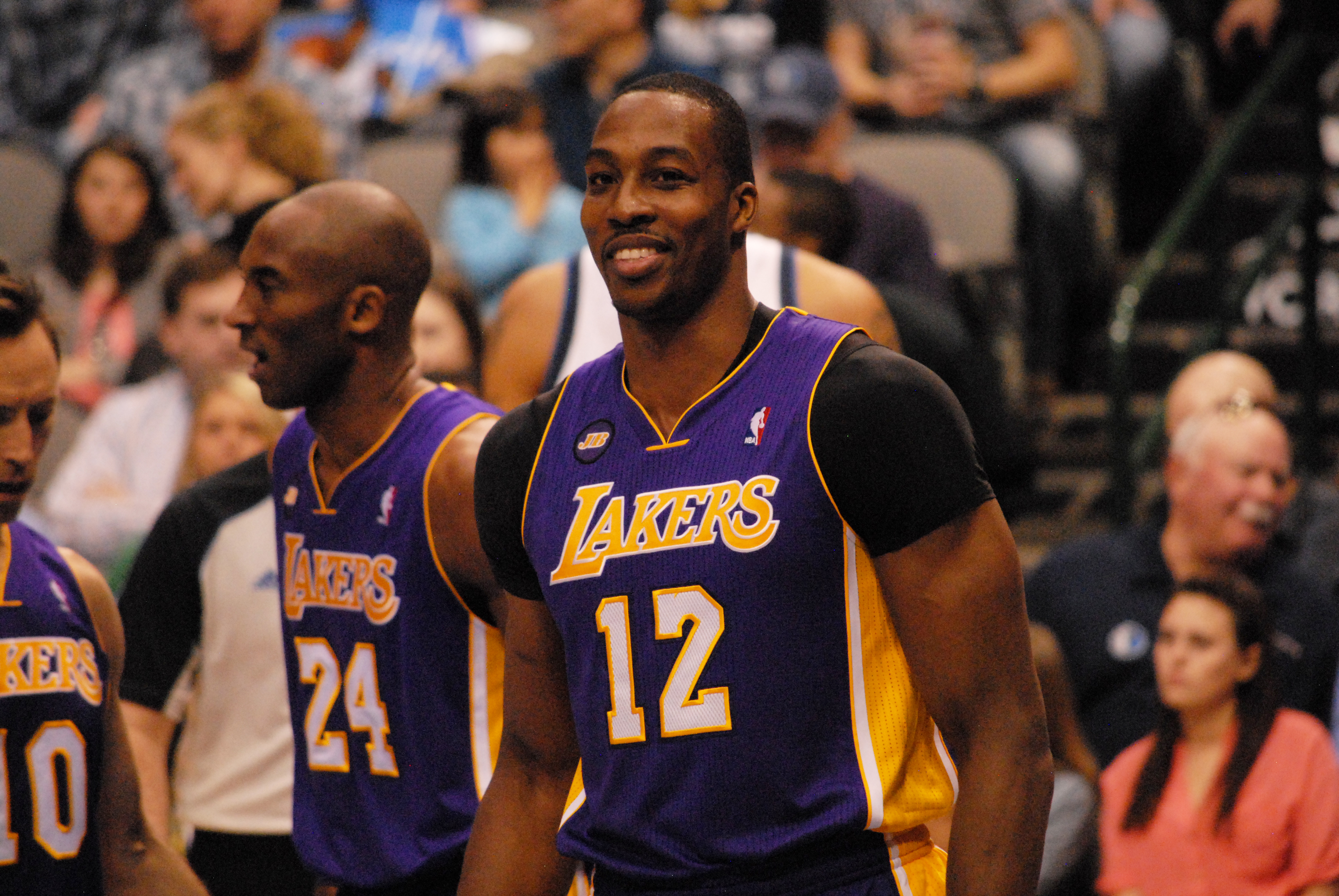 Dwight Howard of the LA Lakers, with Kobe Bryant and Steve Nash in the background